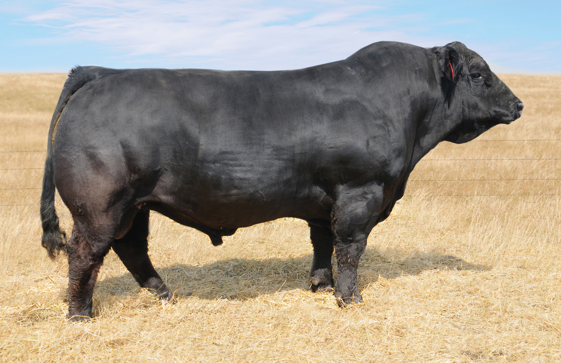 Picture of a 'Black Simmental' A.I. sire in North America, RC Club King 040R.